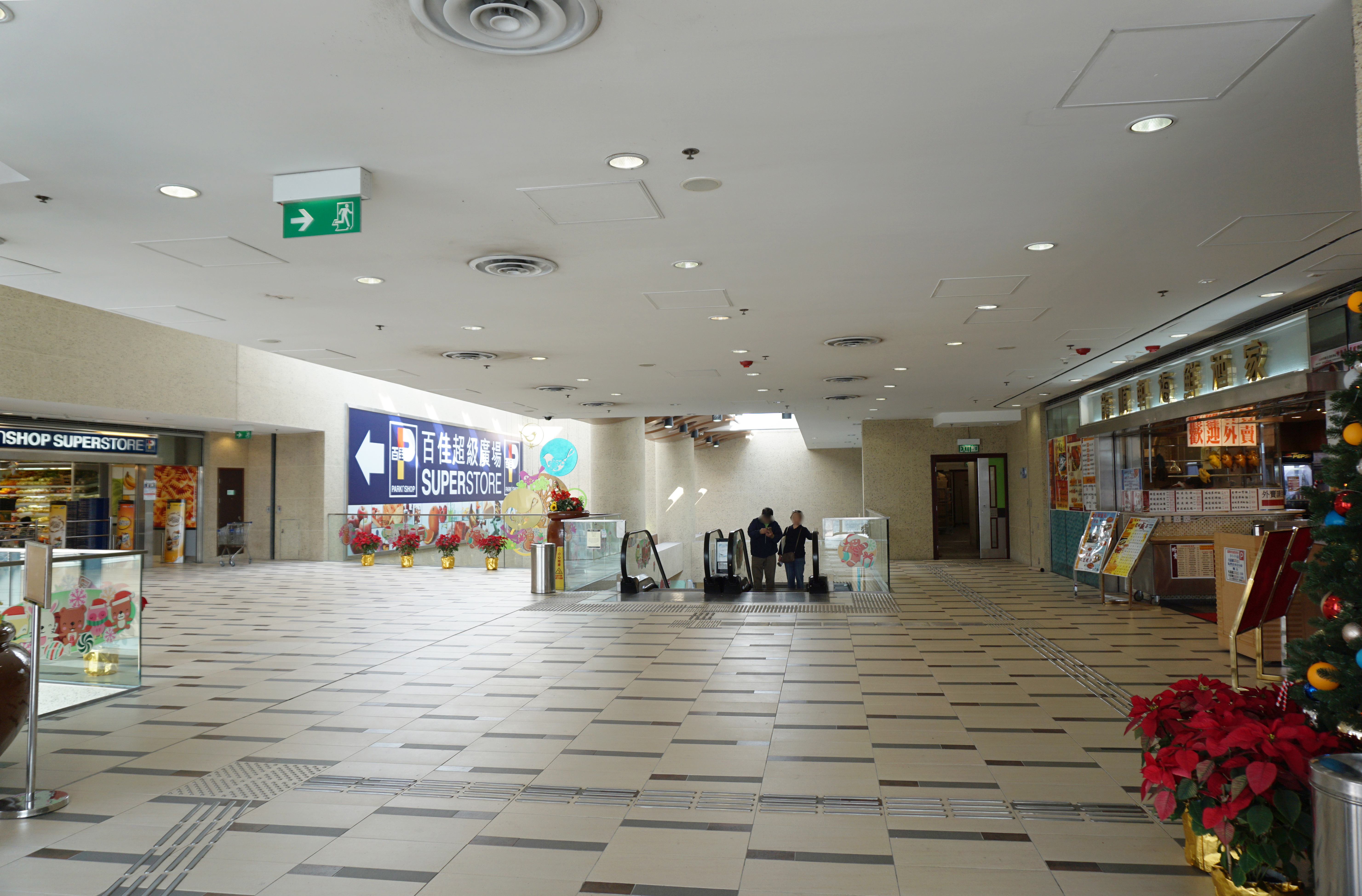 Choi Tak Shopping Centre in Kowloon Bay, Hong Kong.